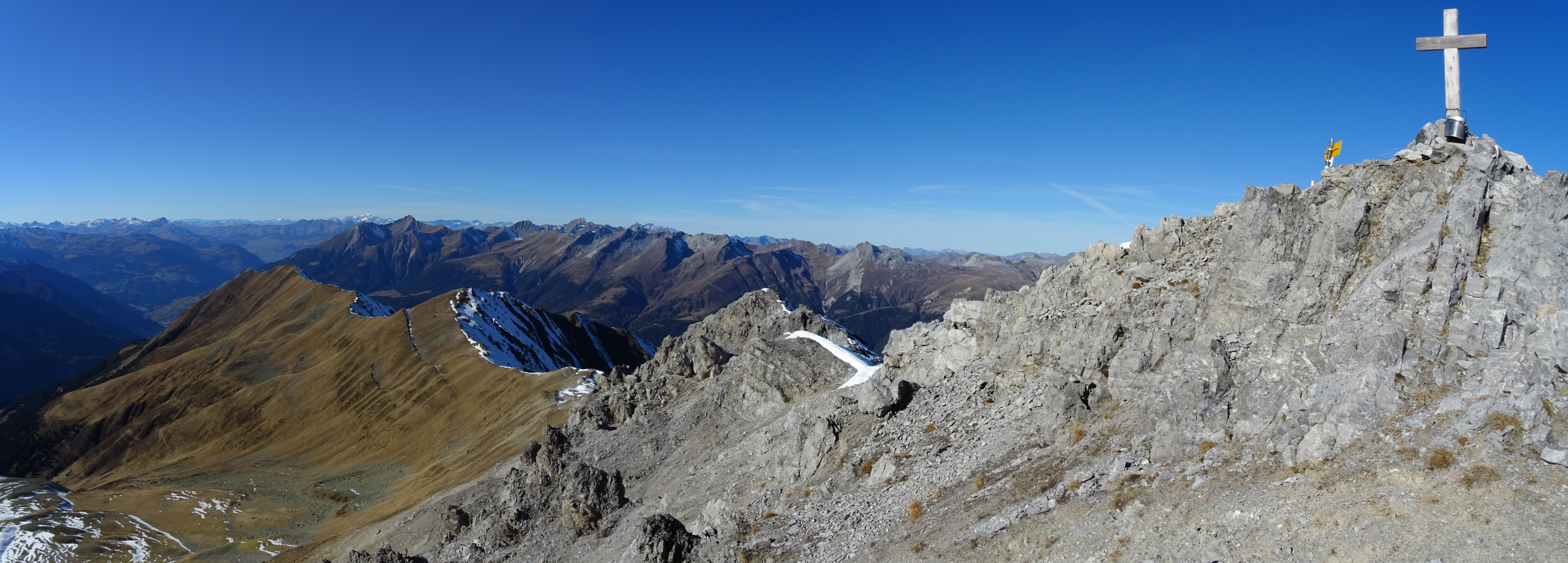 Stulsergrat and Muchetta as senn from Büelenhorn (Davos / Bergün/Bravuogn / Filisur, Grisons, Switzerland)